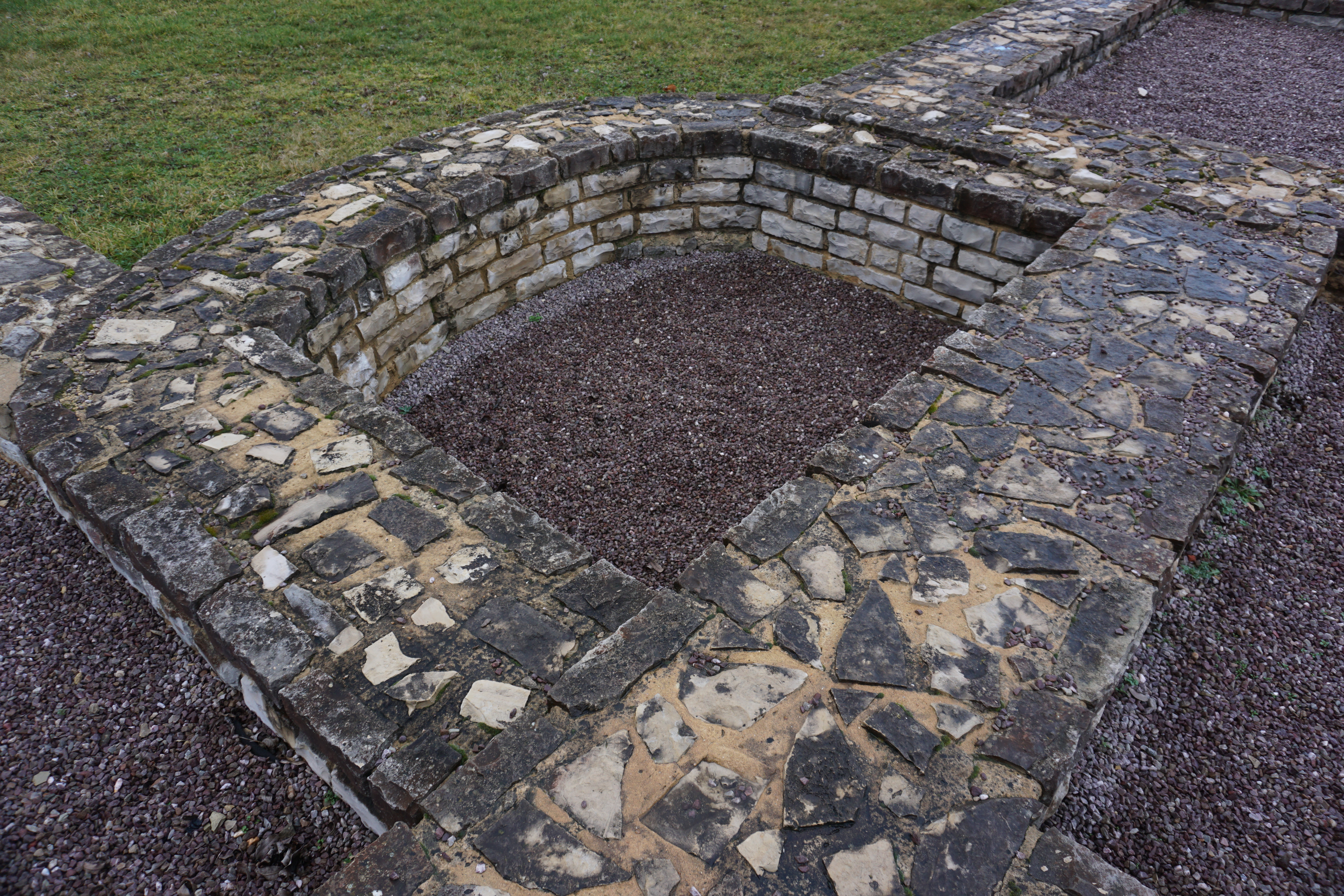 Basin of the cold bath (frigidarium) in the Roman villa of Reinheim.